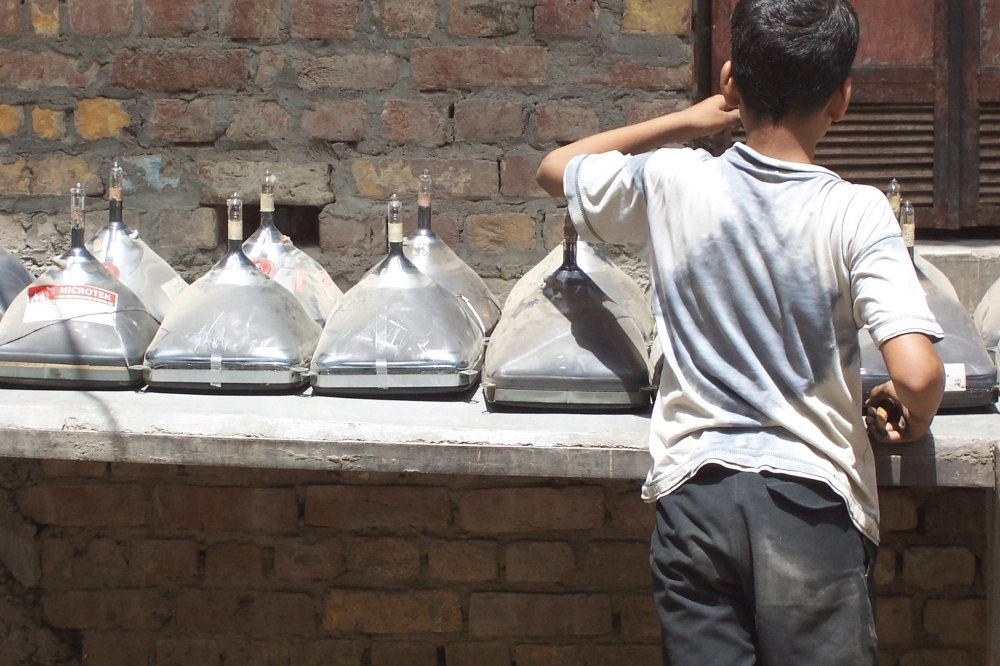 A child with old cathode ray tubes. Photographed in New Delhi (Shastri Park)